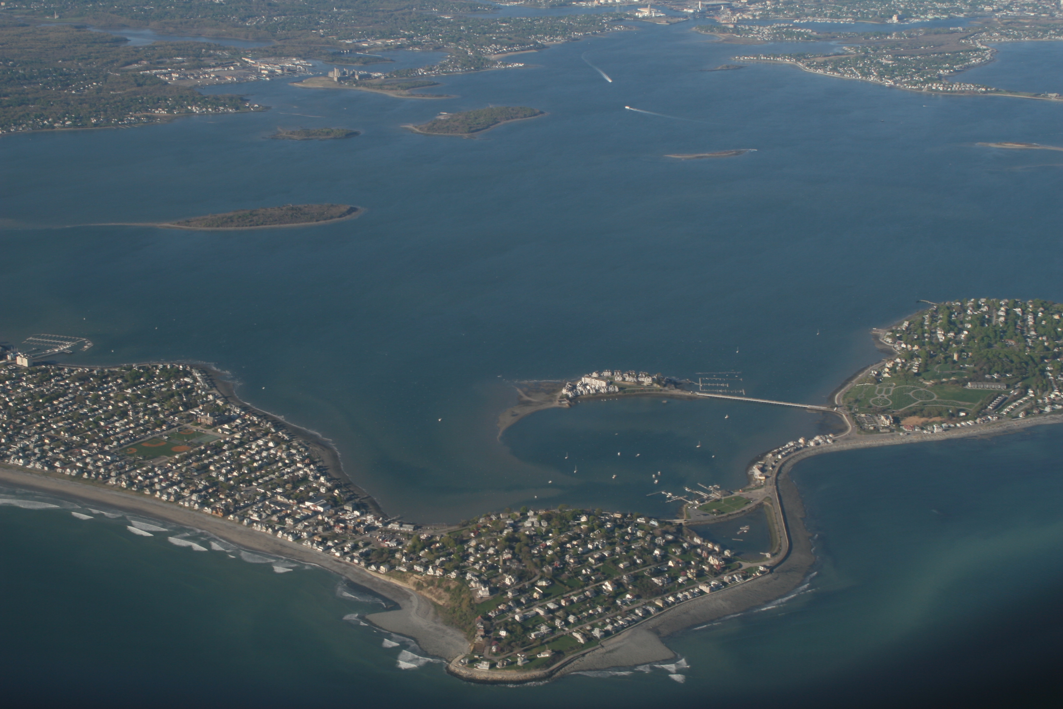 Aerial view with Hull, Massachusetts in the lower foreground showing Hingham Bay